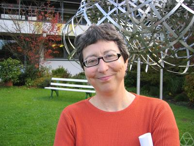 Description at MFO: On the Photo: * Esteban, Maria J. * Occasion:Mathematical and Numerical Aspects of Quantum Chemistry Problems * Location: Oberwolfach * Author: Schmid, Renate (photos provided by Schmid, Renate) * Source: MFO * Year: 2006 * Copyright: MFO * Photo ID: 8788